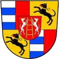 Arms of the Lamberg family after 1655 with the arms of the della Scala family as escutcheon